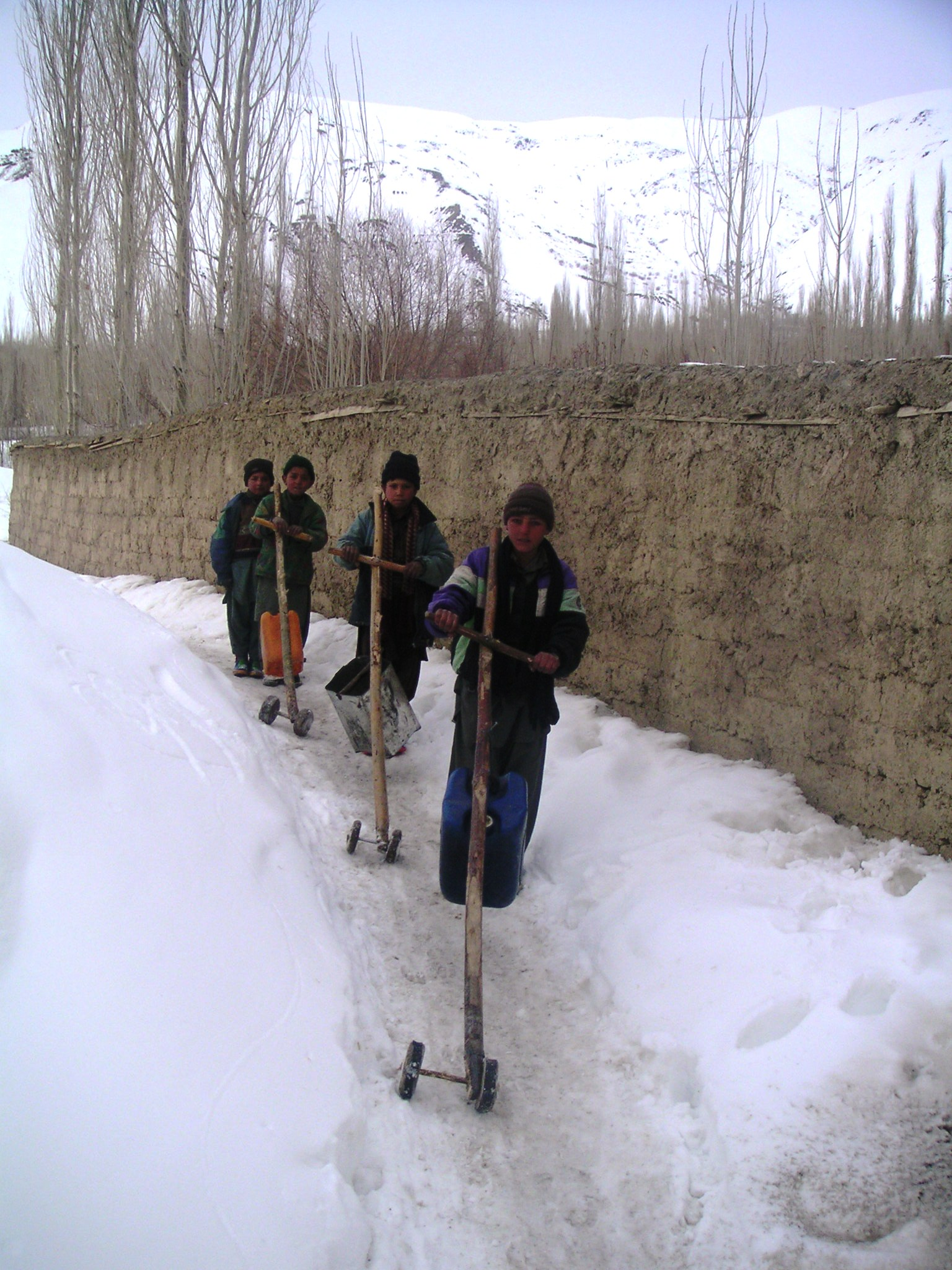 The school children carrying drinking water from Khachomahrt a neglected valley of Chitral (Pakistan) where the government has not yet provided tape water to the residents of the locality